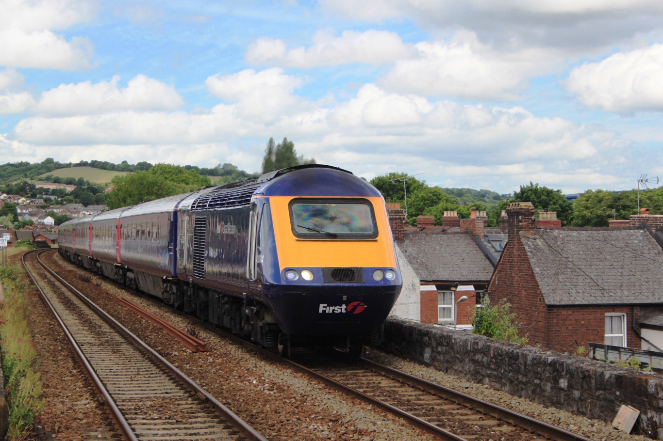 A sunny summer Saturday finds the London Paddington to Penzance 'Cornish Riviera Express' heading through Exeter behind First Great Western's 43034.